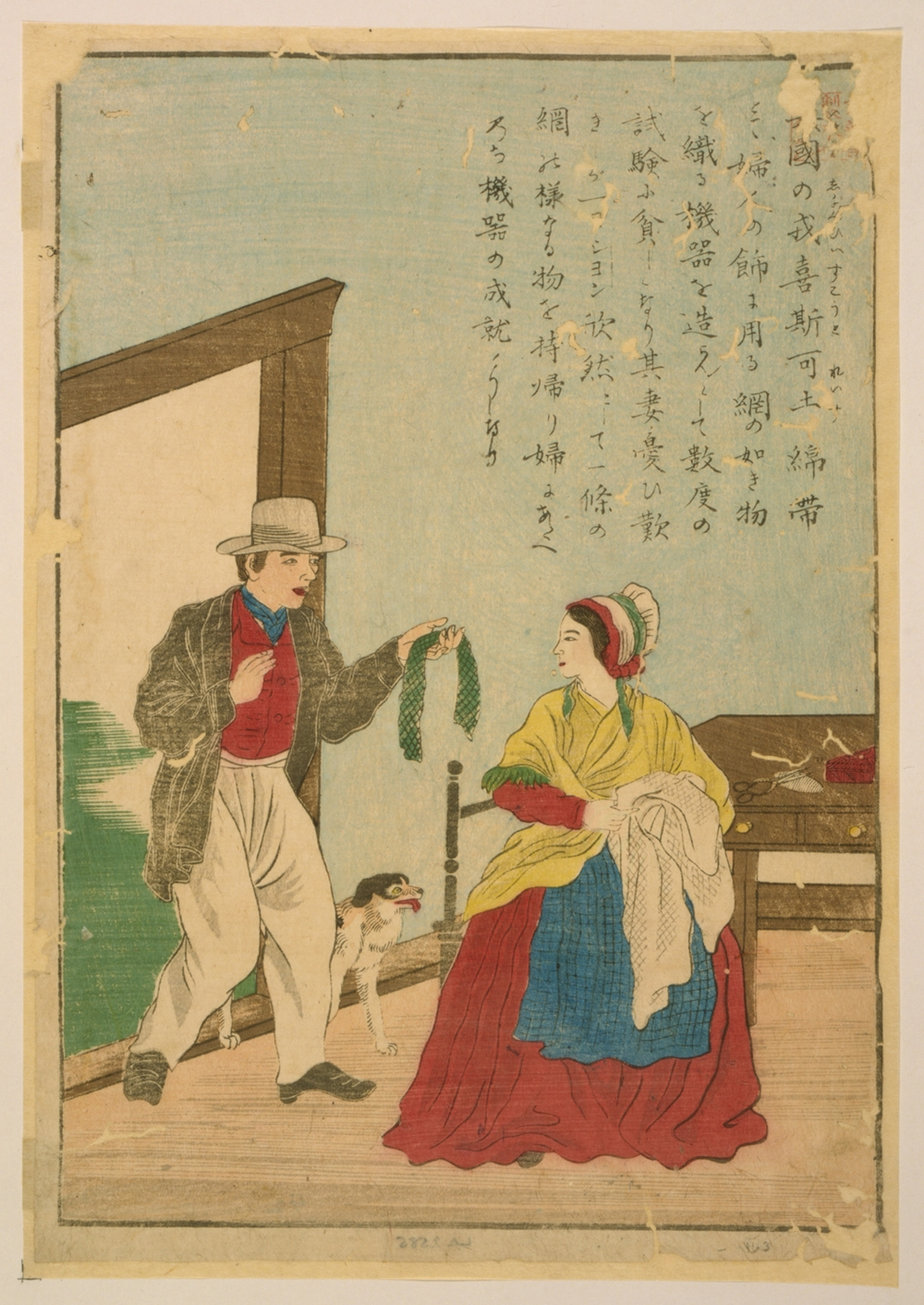 Title: [John Heathcoat, inventor of the bobbinet machine. (Be careful, the title is wrong: Heathcoat was inventor of the bobbinet machine not of the knitting machine!)] Date Created/Published: Japan : Japanese Department of Education, [between 1850 and 1900] Medium: 1 print on hōsho paper : woodcut, color ; 33 x 23 cm. (block), 35.5 x 25 cm. (sheet). Summary: Japanese print showing Heathcoat displaying the first successful result from his bobbinet machine to his wife. Reproduction Number: LC-USZC4-10405 (color film copy transparency) Rights Advisory: No known restrictions on publication. Call Number: FP 2 - Chadbourne, no. 27 (A size) [P&P] Repository: Library of Congress Prints and Photographs Division Washington, D.C. 20540 USA